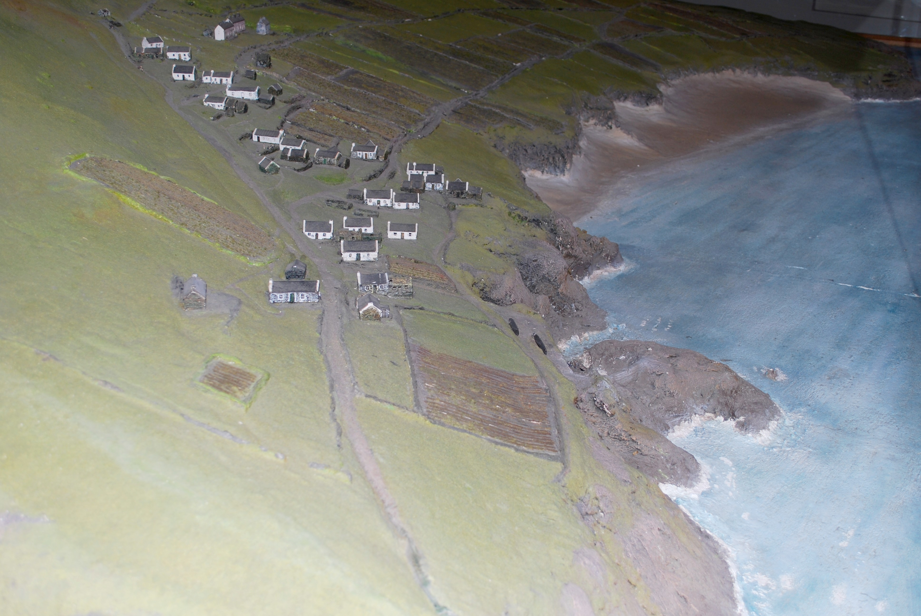 Scale model in Blasket Heritage Centre, Dunquin, County Kerry, Ireland of Village Great Blasket Island.